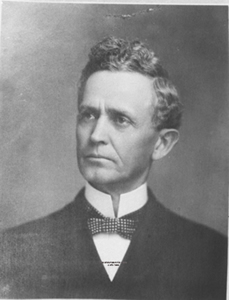 Asbury Bascom Davidson (1855—1920) — 22th Lieutenant Governor of Texas